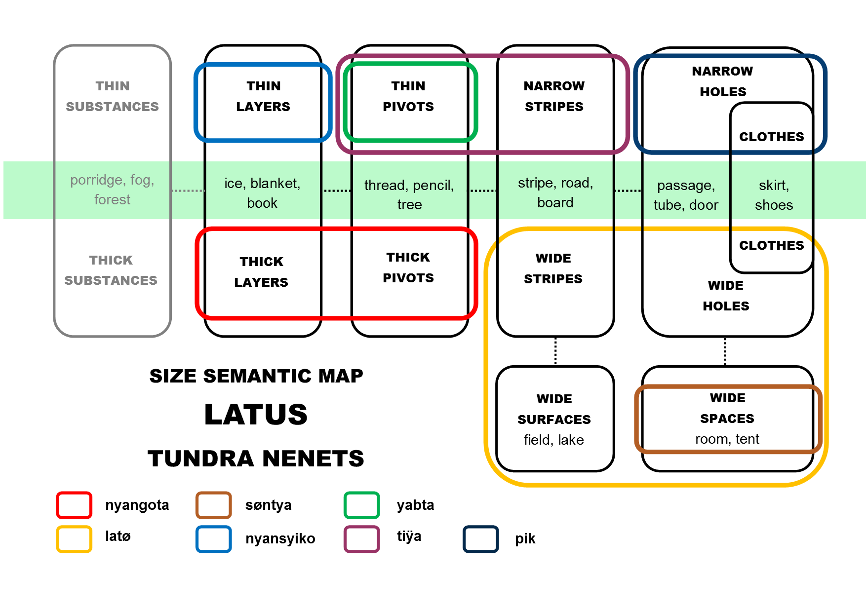 Size adjectives in Nenets. A semantic map